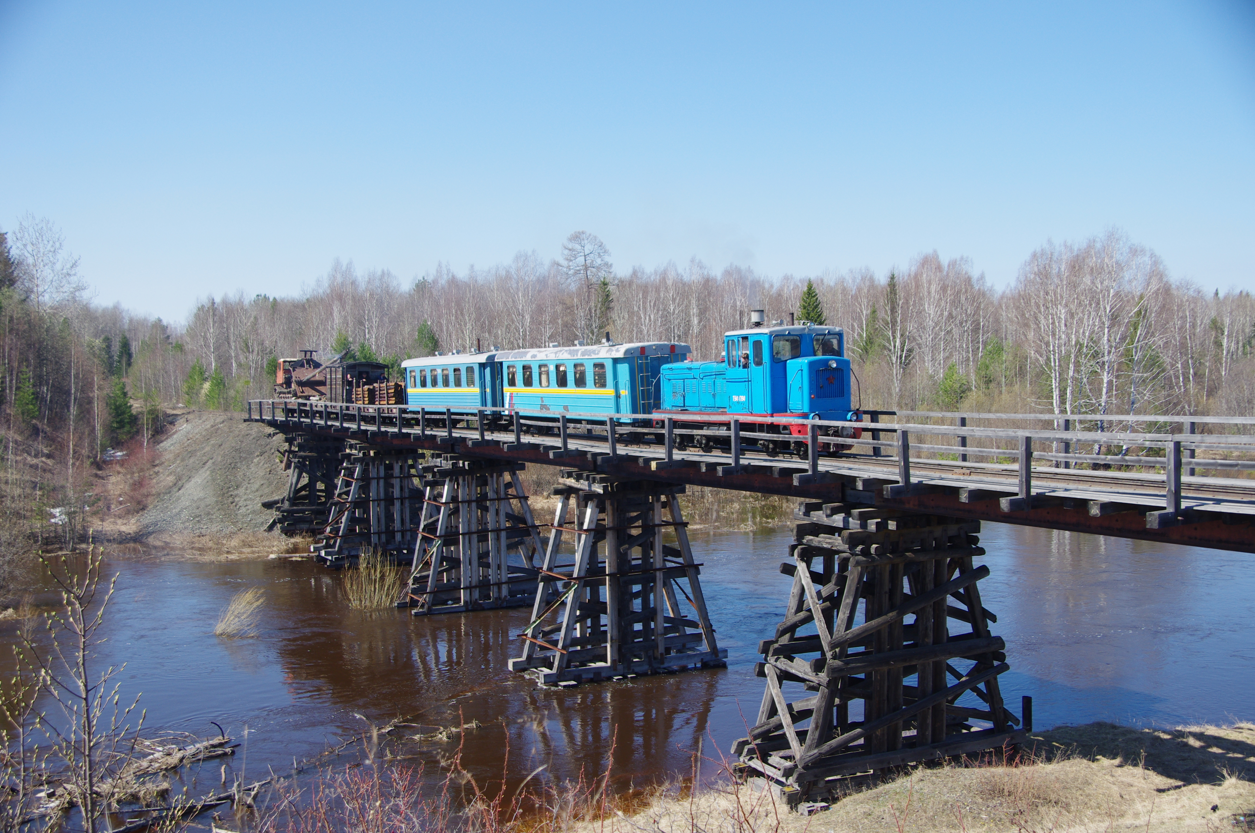 Экскурсионный поезд Алапаевск - Санкино. 2-3 мая 2014 г. Организован проектом "Поезд Напрокат". This municipal line provide night passenger service 4 times at week from Alapaevsk to forest villages. Special train was ordered by railway entusiasts from Moscow. After derailment, trainset merged with rescue train.